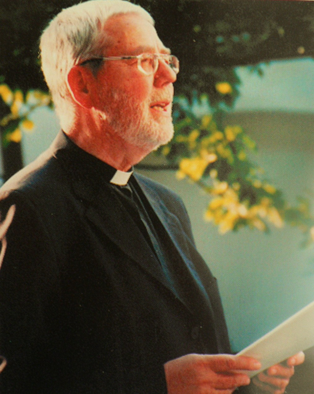 own file